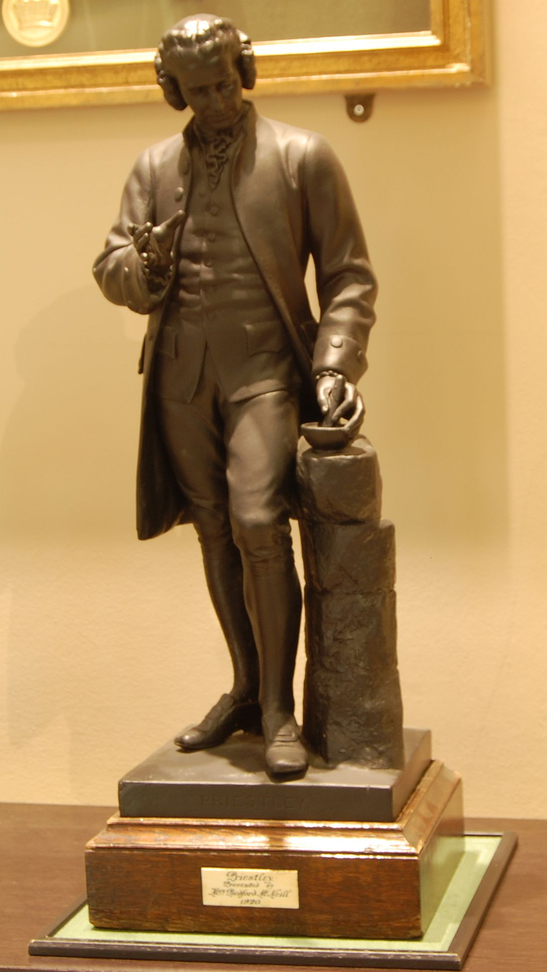 Statuette of Joseph Priestley by Francis John Williamson, in the collection of the Royal Society of Chemistry, at it's Burlington House, London, headquarters.